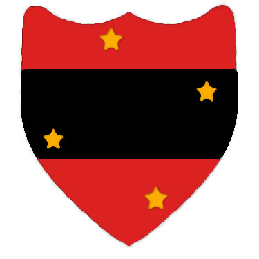 The shield(emblem) of the Southern Command of the Indian Army